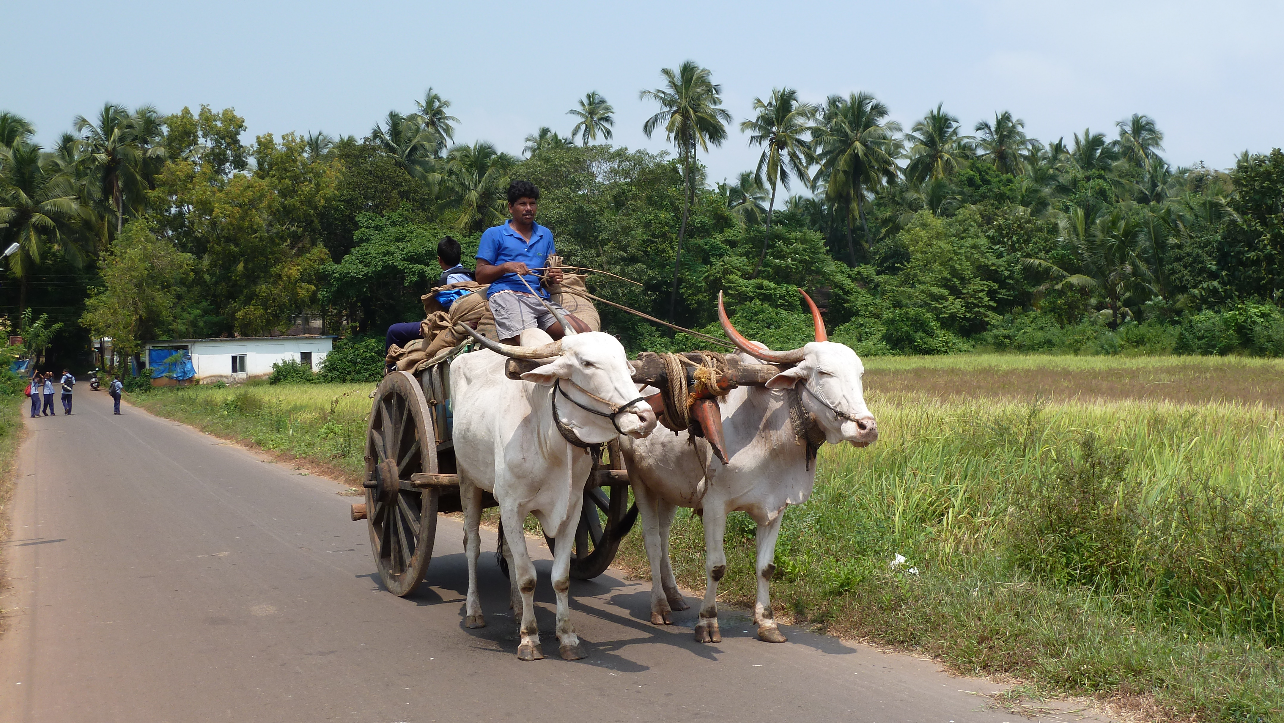 The cattle bring home the harvest via the bullock-cart, Saligao, Goa, India.